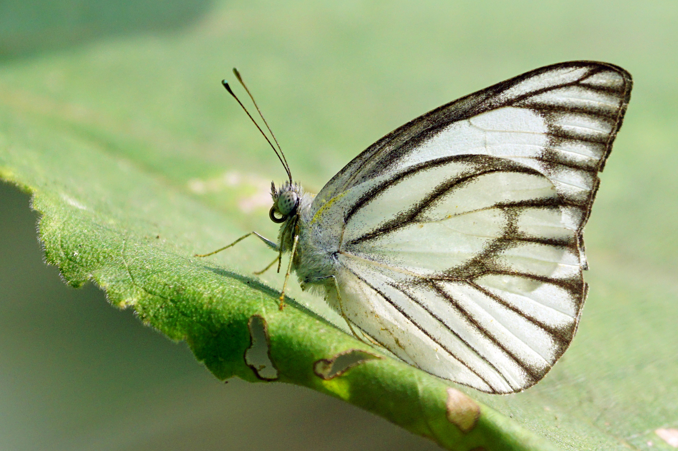 中文（台灣）: 鑲邊尖粉蝶 Appias olferna peducaea